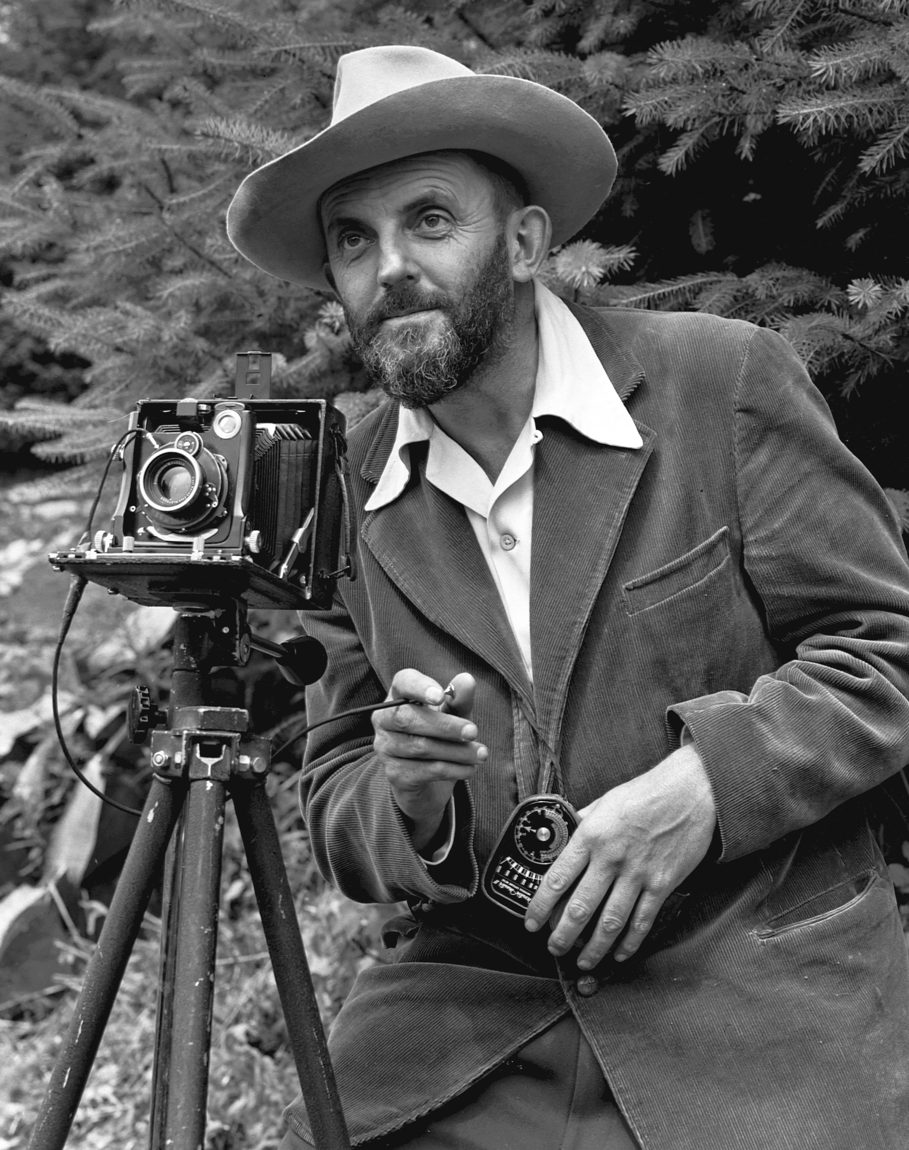 Photographic portrait of nature photographer Ansel Adams — which first appeared in the 1950 Yosemite Field School yearbook. The camera is probably a Zeiss Ikon Universal Juwel.